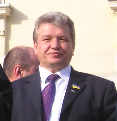 Pavlo Kachur, Ukrainian politician, former member of Verkhovna Rada of Ukraine and Minister of Construction and Architecture of Ukraine